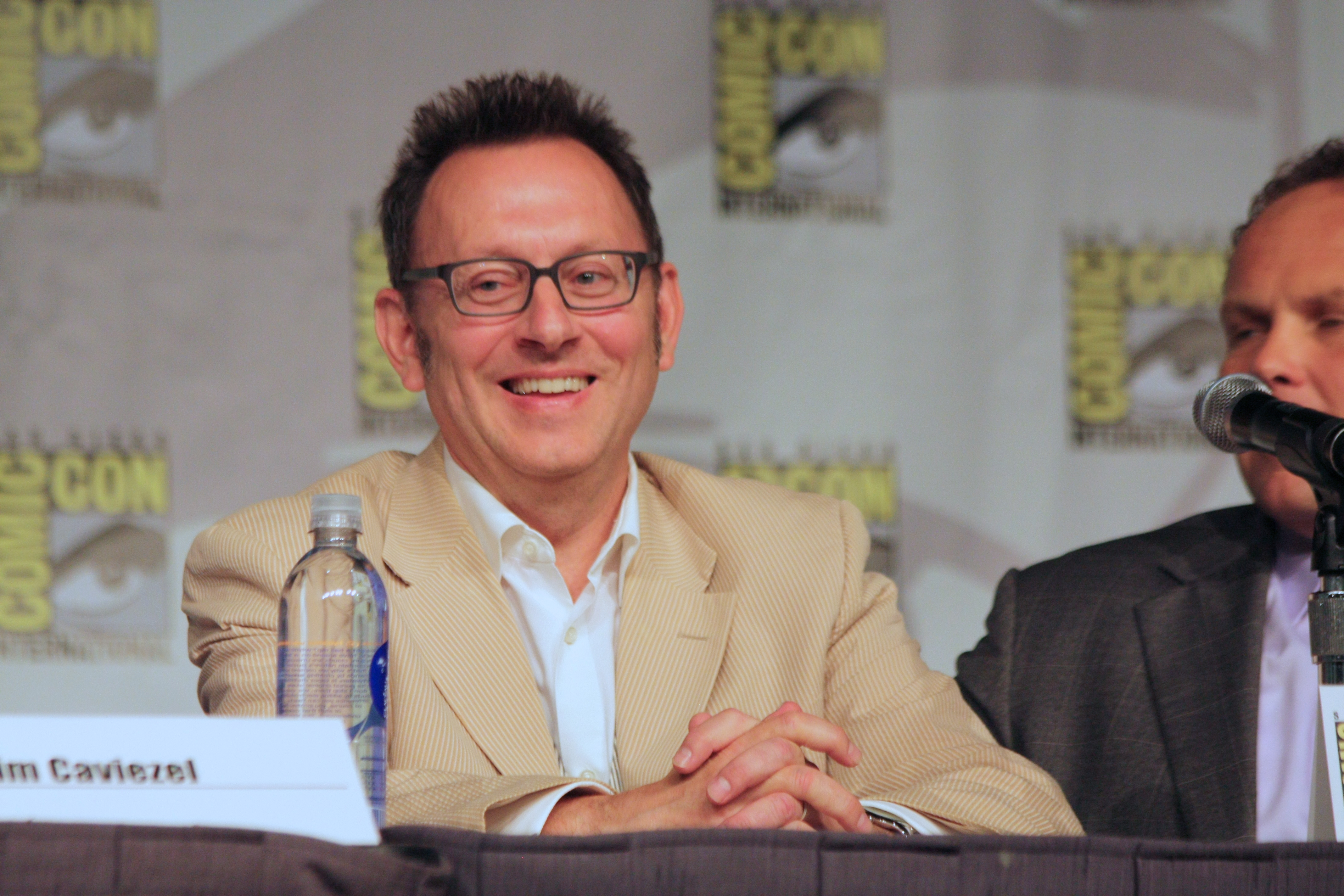 Michael Emerson (Harold) Person of Interest Panel at the 2014 San Diego Comic Con